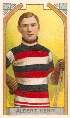 Hockey player Albert "Dubbie" Kerr of the Ottawa Senators on a 1911 Imperial Tobacco hockey card